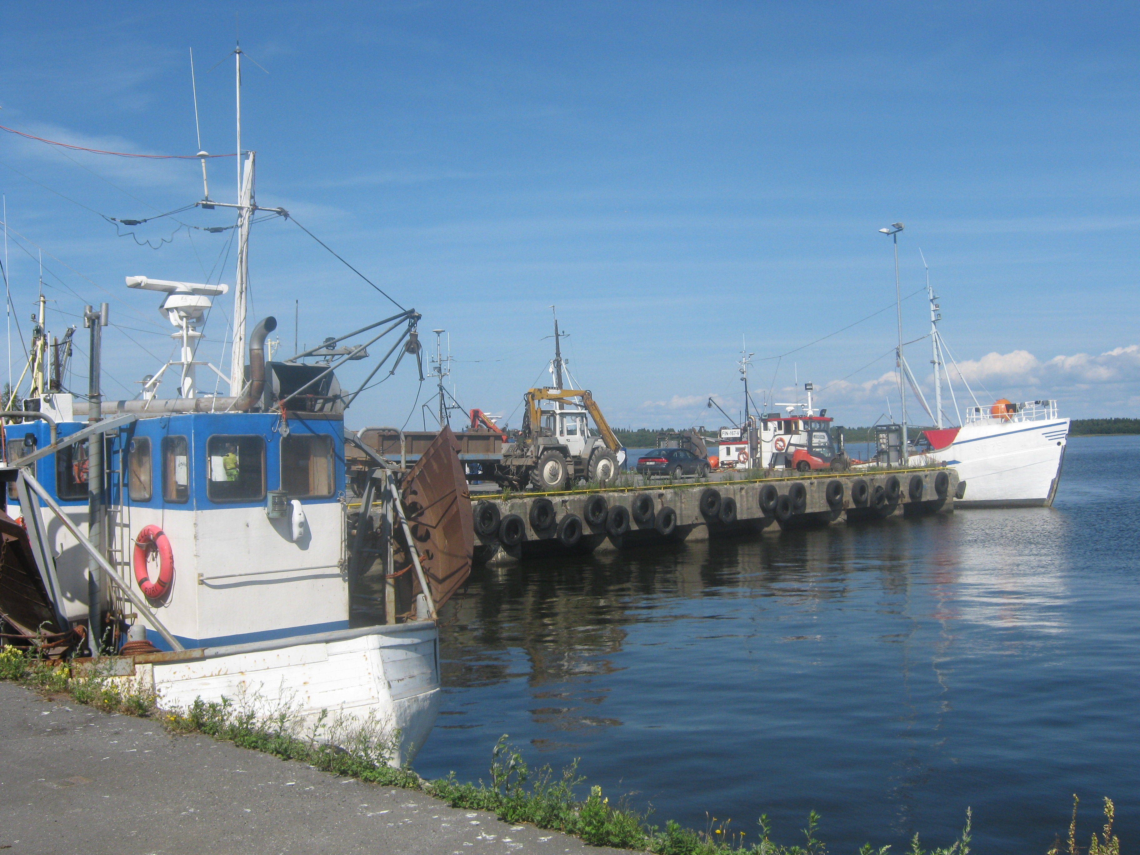 Fishing port of Reposaari island, Pori, Finland.